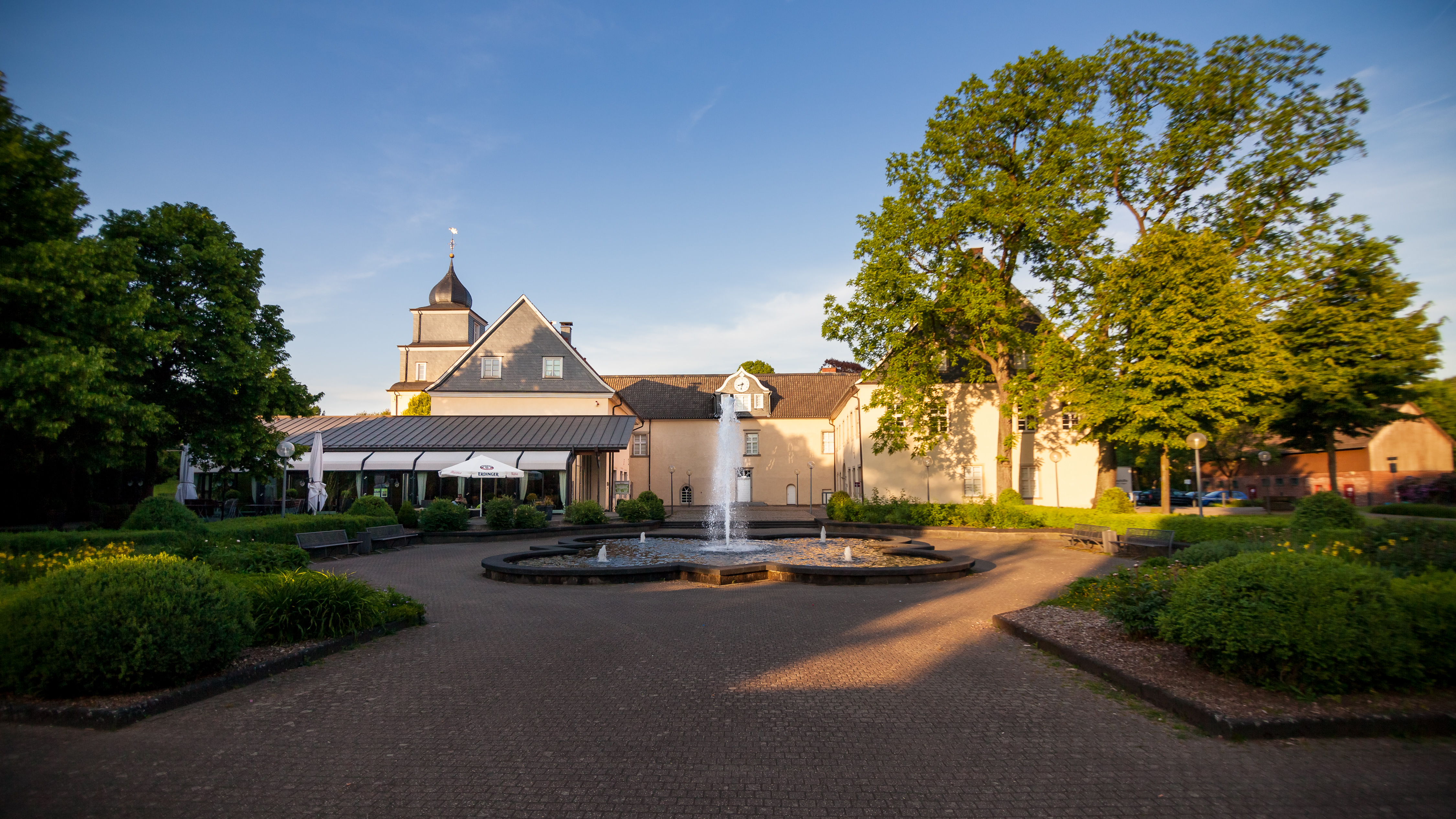 Martfeld Manor, Schwelm, Germany, as seen from the west on a June 2015 evening. Restaurant Schloss Martfeld visible on the right.